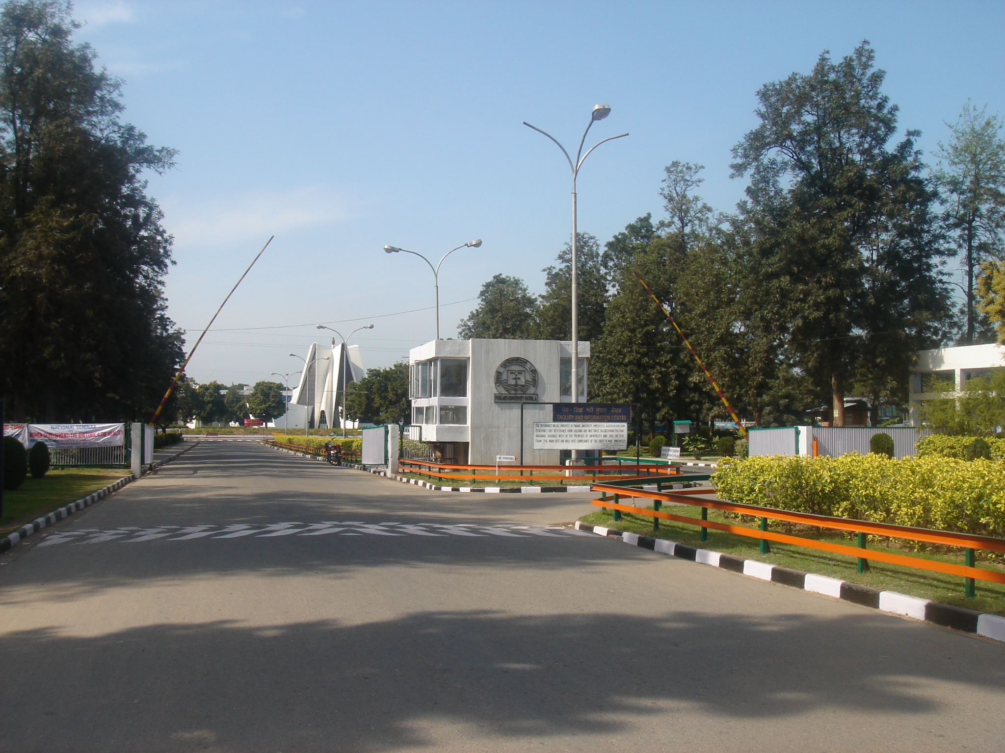 Rohit Markande, clicked by myself at Patiala